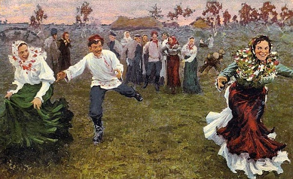 Playing-Gorelki-folk-game. 1917